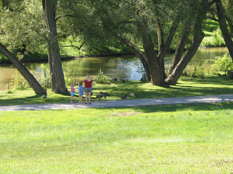 Summer in the Park, Newmarket, Ontario